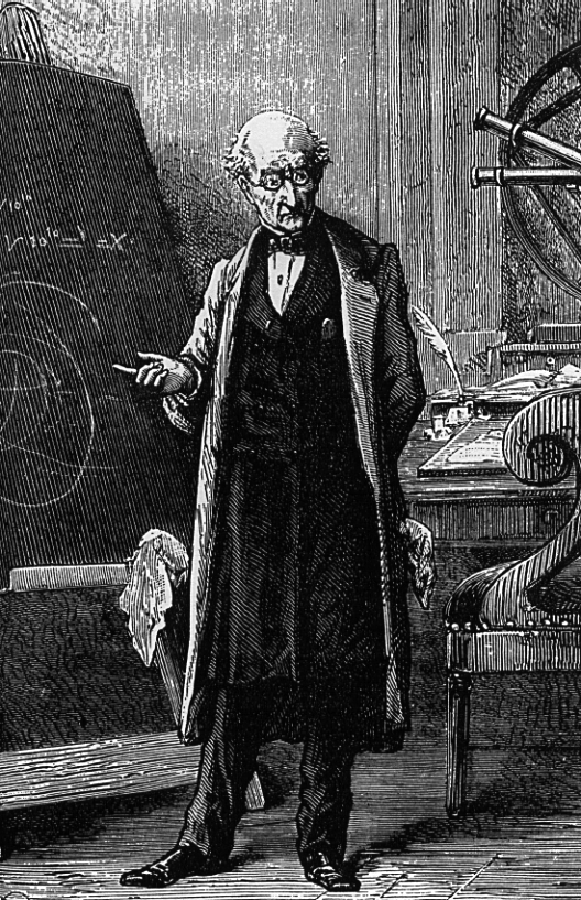 An illustration from Jules Verne's novel "Off on a Comet" (French: "Hector Servadac", 1877) drawn by Paul Dominique Philippoteaux.